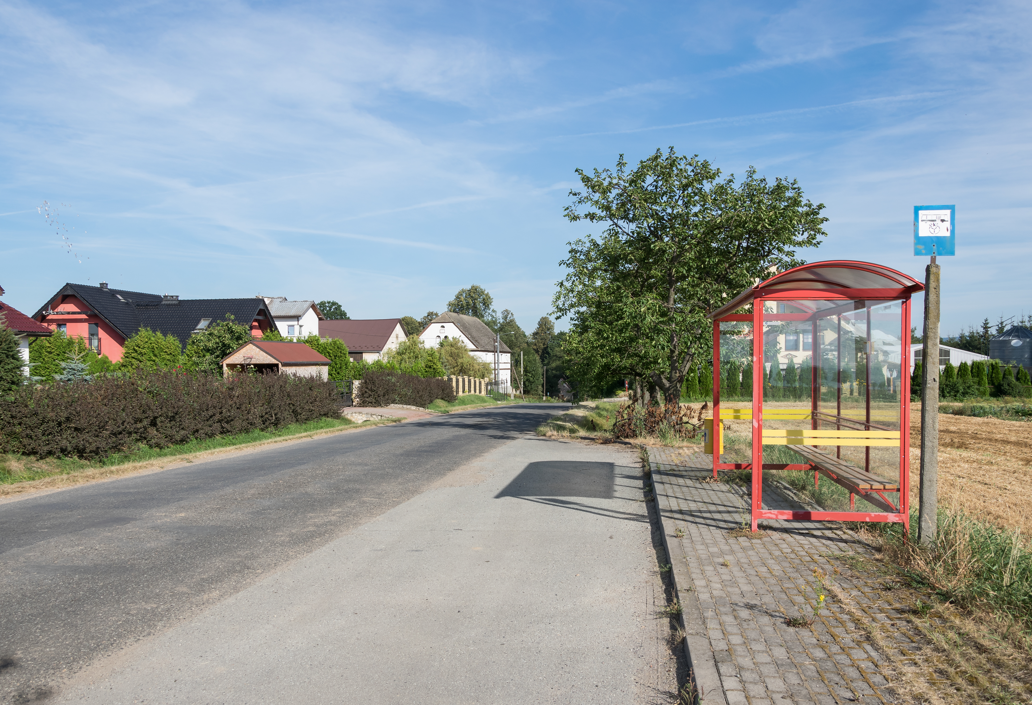 Bus stop in Roszyce